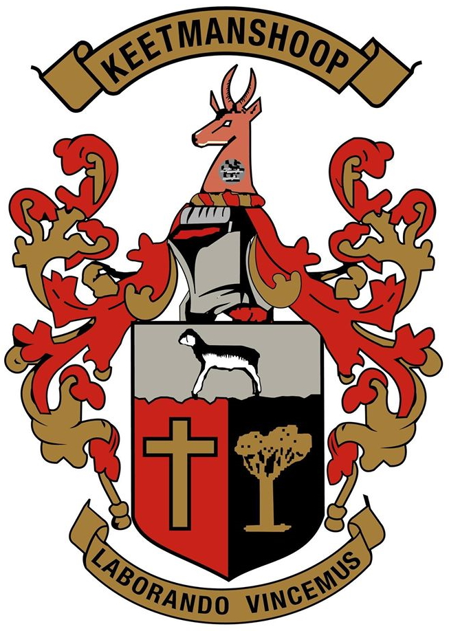 Coat of arms of Keetmanshoop, Namibia.